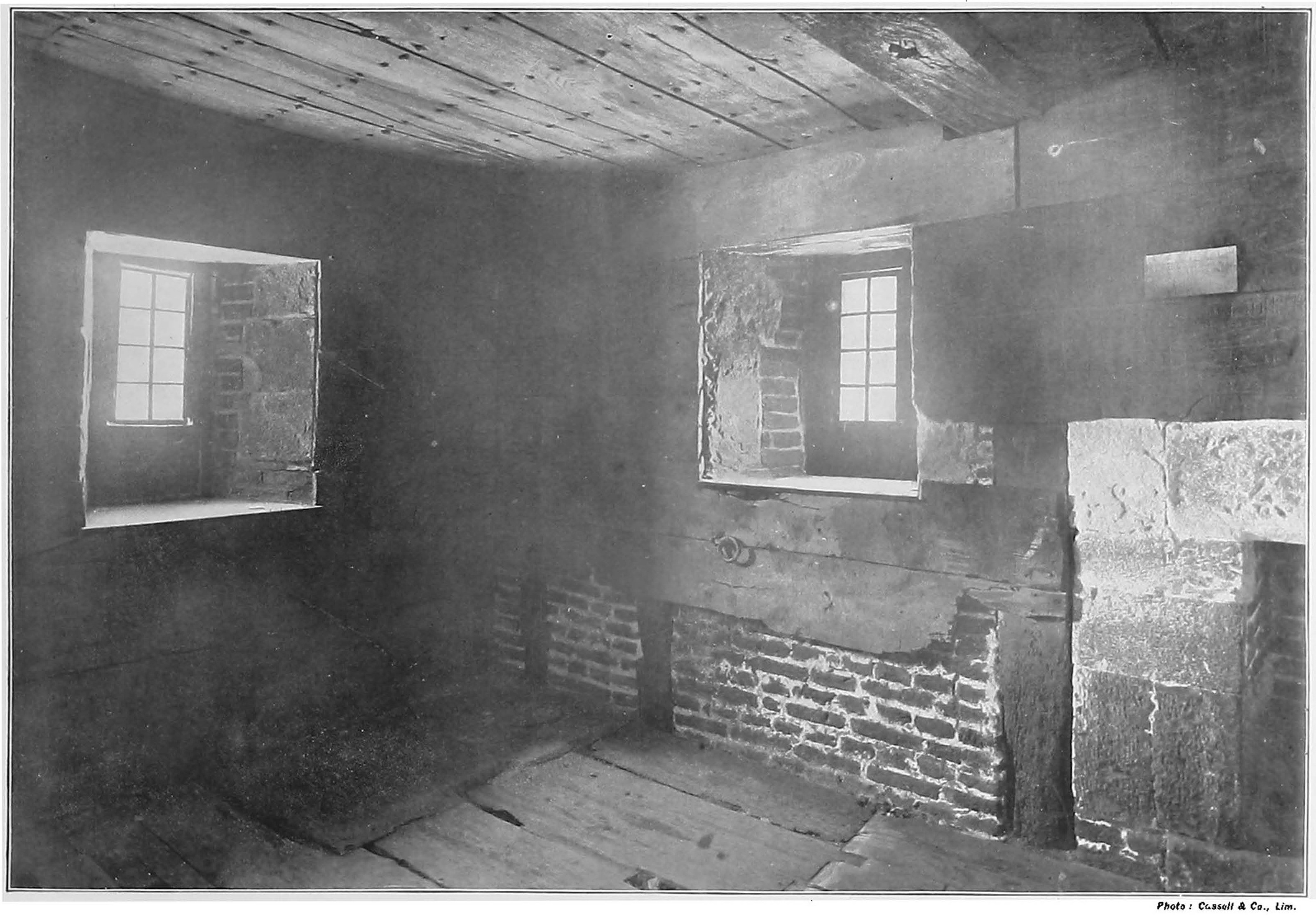 THE LOLLARDS' PRISON. The Lollards' Tower in Lambeth Palace contains within its thick and ancient walls the historic prison room which is here represented. Built in the early part of the fifteenth century by Archbishop Chicheley, it was used as a place of confinement for the unhappy persons, known as Lollards, who had incurred the censure of the Church on account of the crime which was supposed to be involved in their heretical opinions. The prison is at the top of the tower, approached by a winding stairway, and entered through a doorway so narrow that only one person can pass at a time. The Lollards' Prison stands as a memorial of the long and painful struggle which was maintained by our forefathers on behalf of liberty of opinion and freedom of religious belief. Happily, the enemies of liberty have been routed, and the Lollards' Prison is in our days without a tenant.